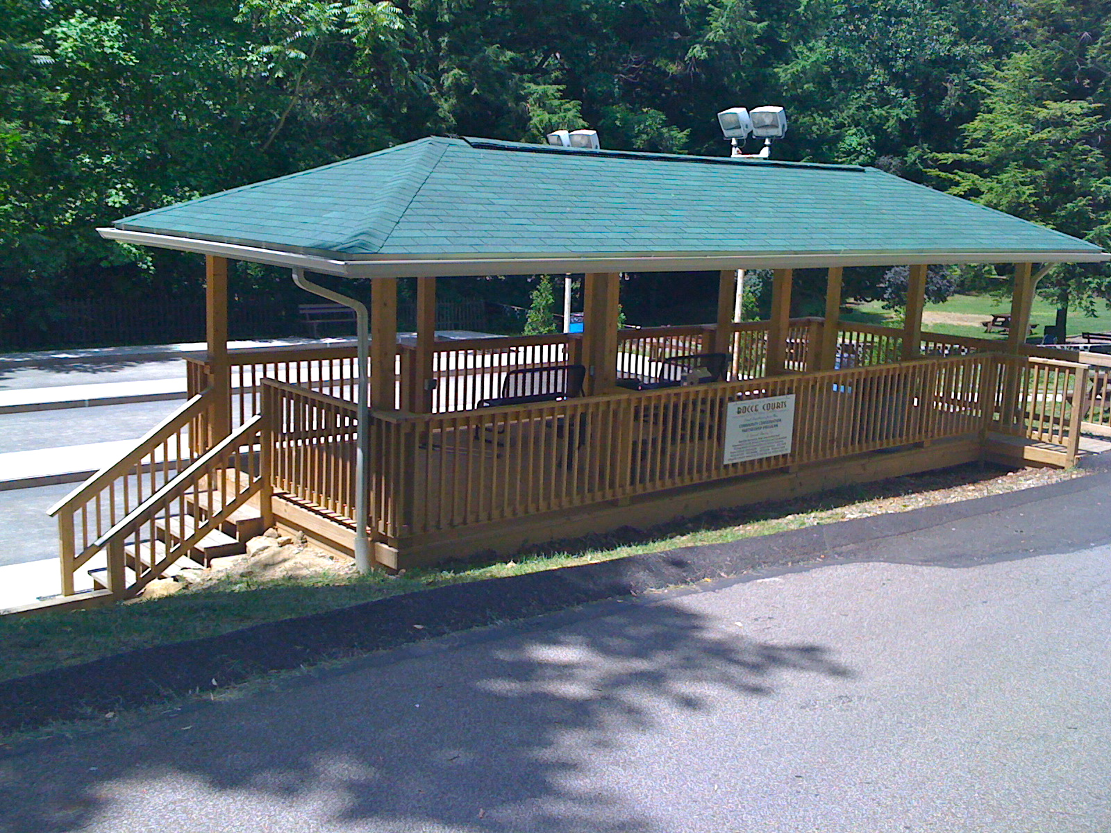 The former Tumble Bug station at Cascade Park, New Castle, PA. This area is now a bocce ball court.